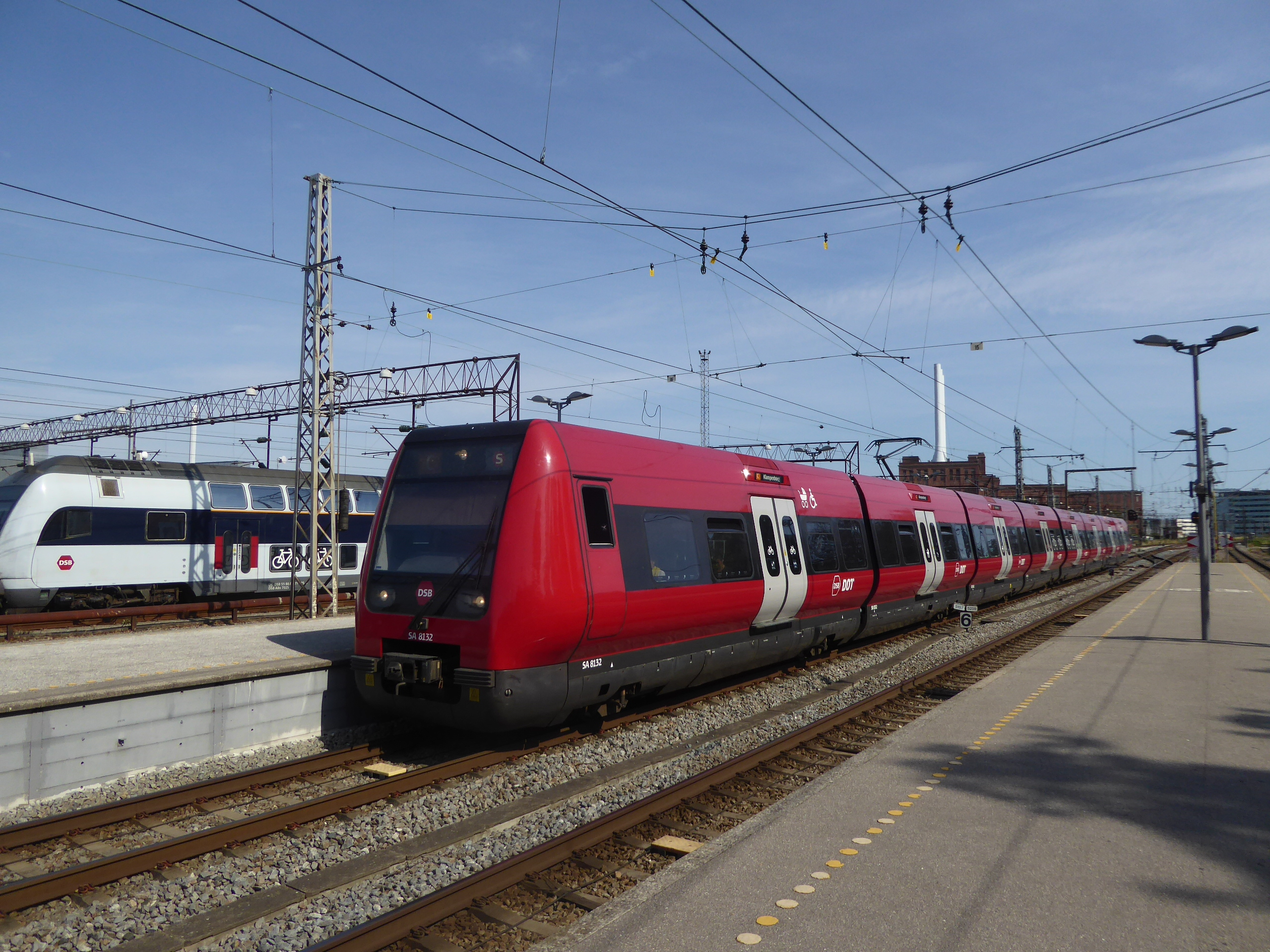 The S-train DSB SA 32 on line C at Svanemøllen Station in Copenhagen. It is the first S-train in the new design and also the only one so far.